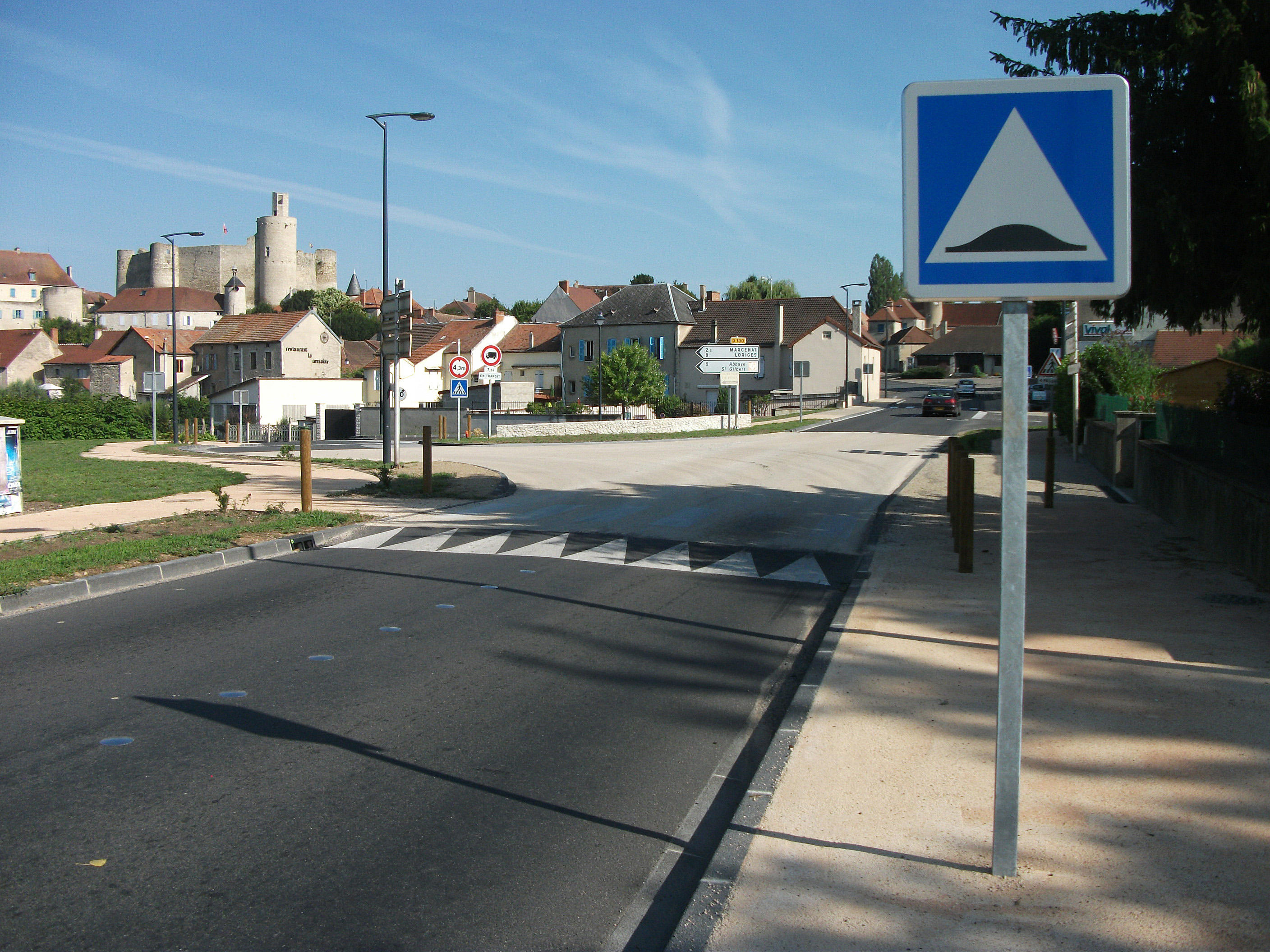 Traffic calming in a recently modified intersection N 209 / D 130 in Billy, Allier [8568]